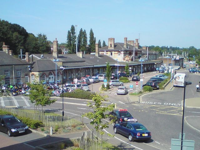 Ipswich Railway Station View of the main entrance and station frontage from the station car park upper level.